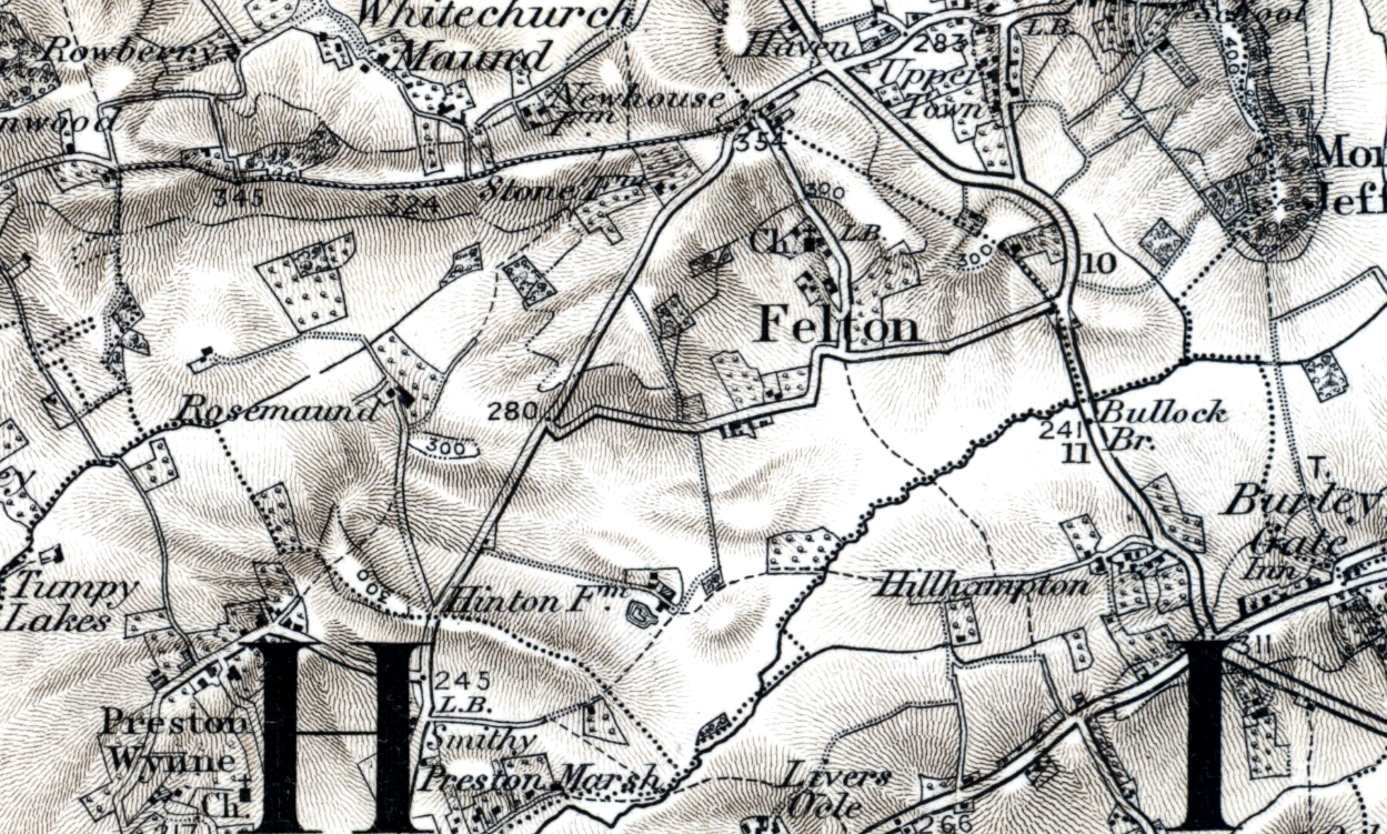 1898 Ordnance Survey map detail of Felton, Herefordshire, England. OS Hereford (Hills) sheet 198 - 1898. Reproduced with the permission of the National Library of Scotland.[1]